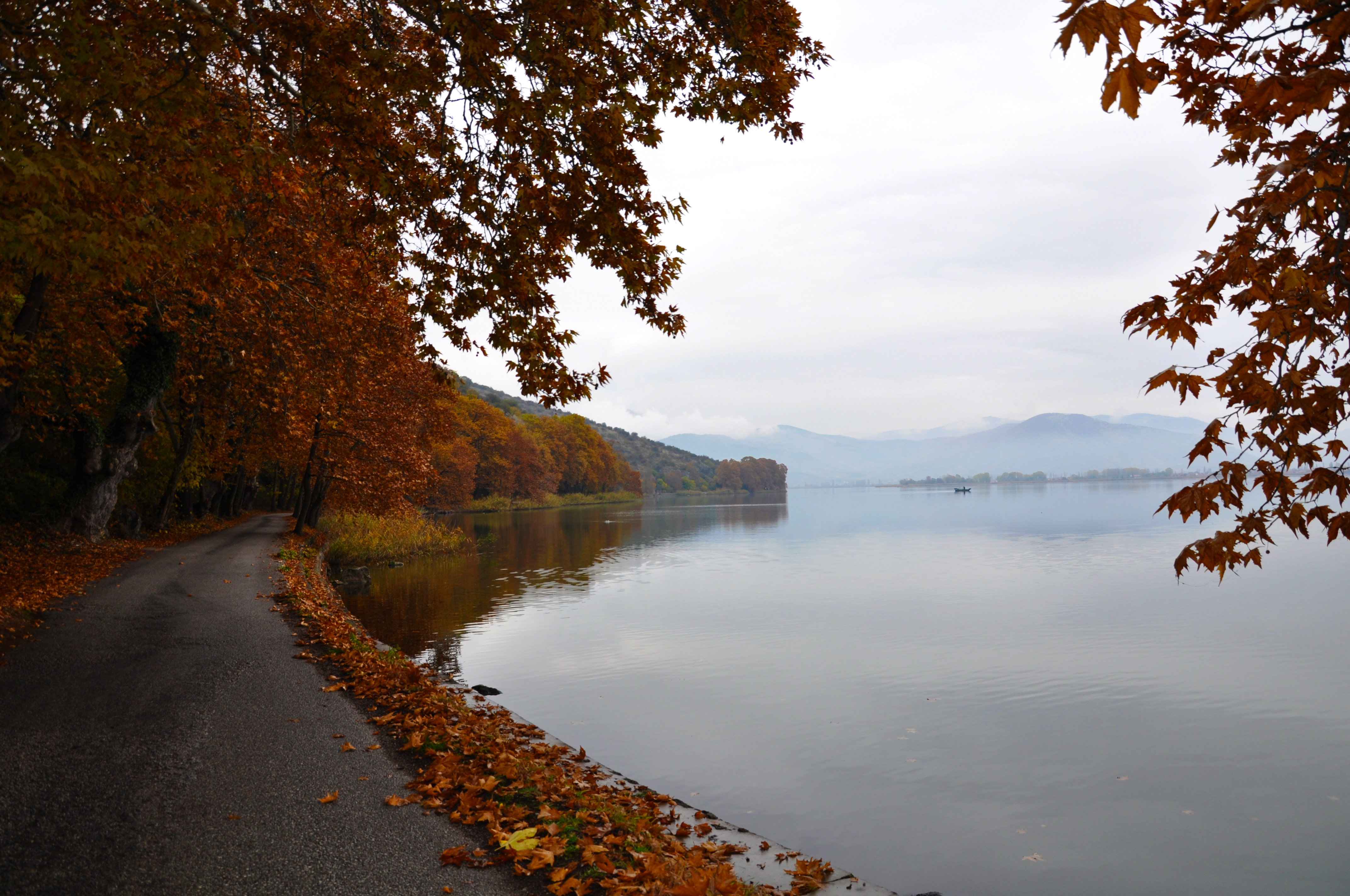 Kastoria lake in autumn This is a photography of Natura 2000 protected area with ID GR1320001